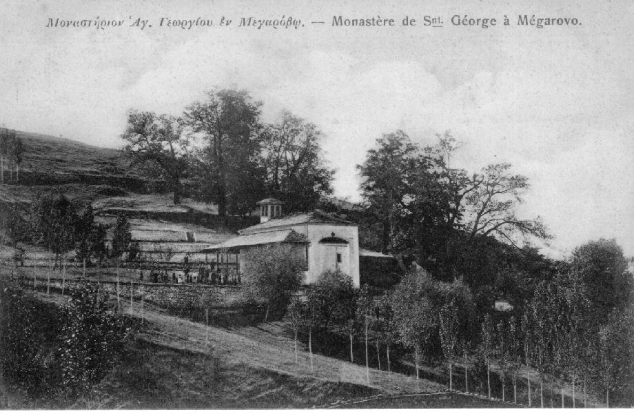 Magarevo monastery, Macedonia